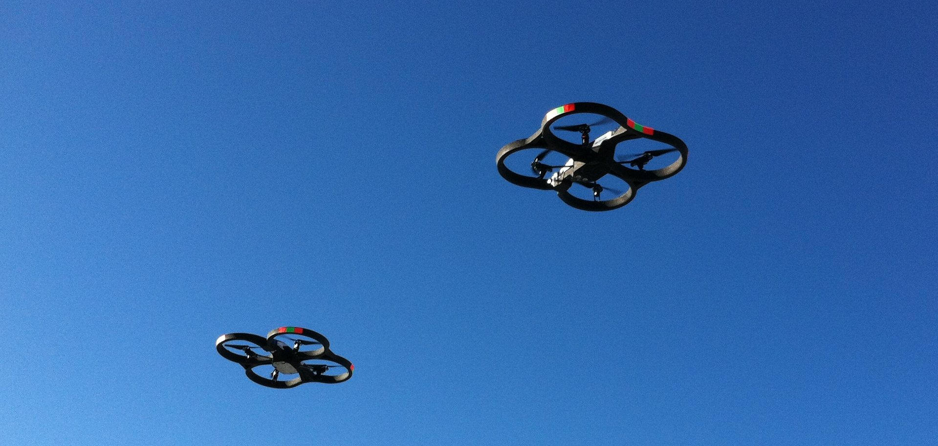 Shot in Las Vegas, CES 2012